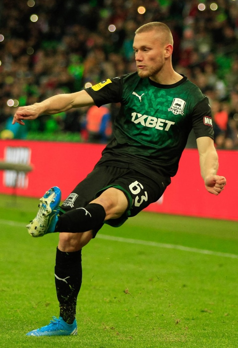 Nikita Sergeyev with FC Krasnodar in a game against FC Ufa.